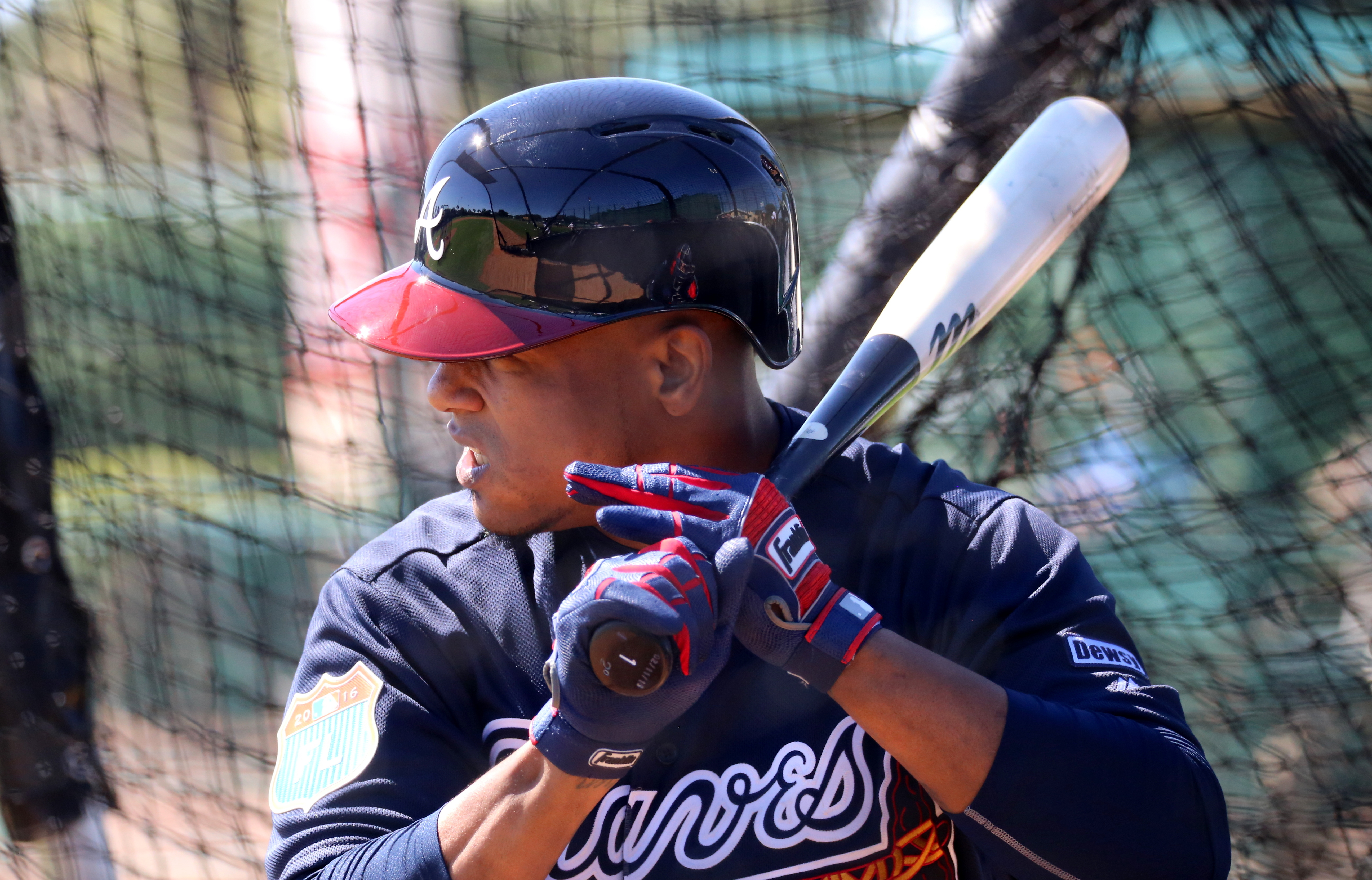 Erick Aybar takes live batting practice at Braves #SpringTraining camp.